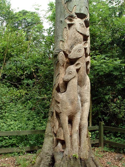 Carving - Sewerby Hall, Sewerby, East Riding of Yorkshire, England.The gardeners at Sewerby Hall are kept busy with the huge garden. Apart from the carvings there are amazing and weird trees and bushes and some beautiful formal gardens.